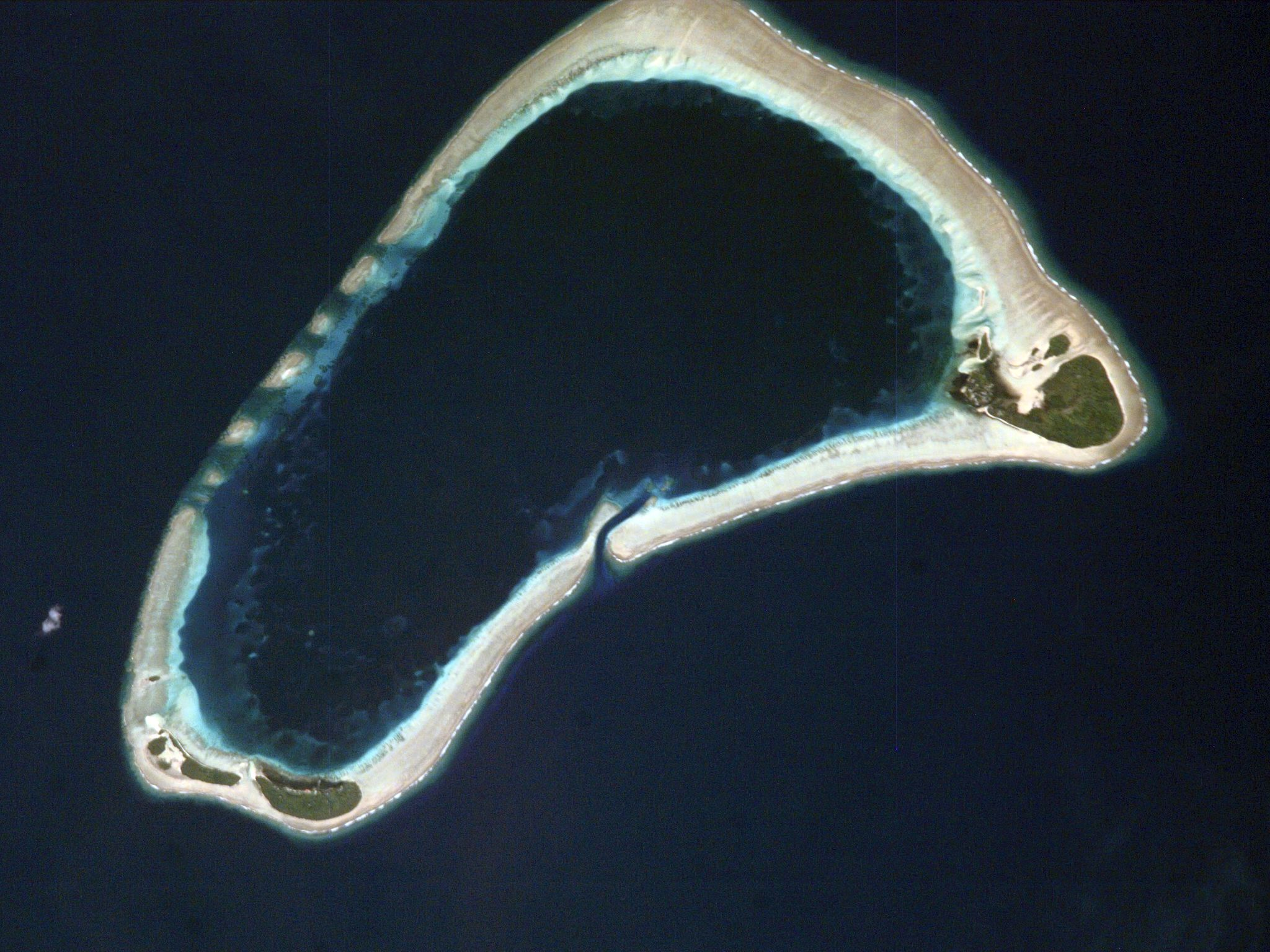 NASA astronaut image of Losap Atoll, Chuuk State, Federated States of Micronesia